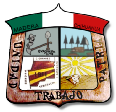 Shield of city madera chihuahua, Delfino Nunez,Own work,October 17, 2006, 10:32:31 PM